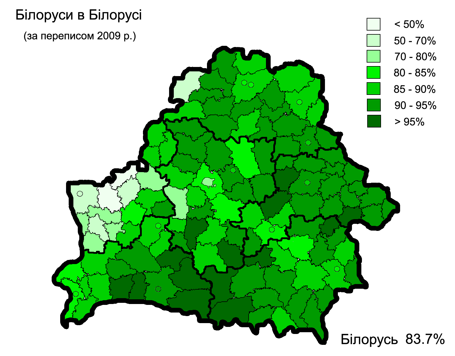 Belarusians in Belarus according to the 2009 Belarus Census